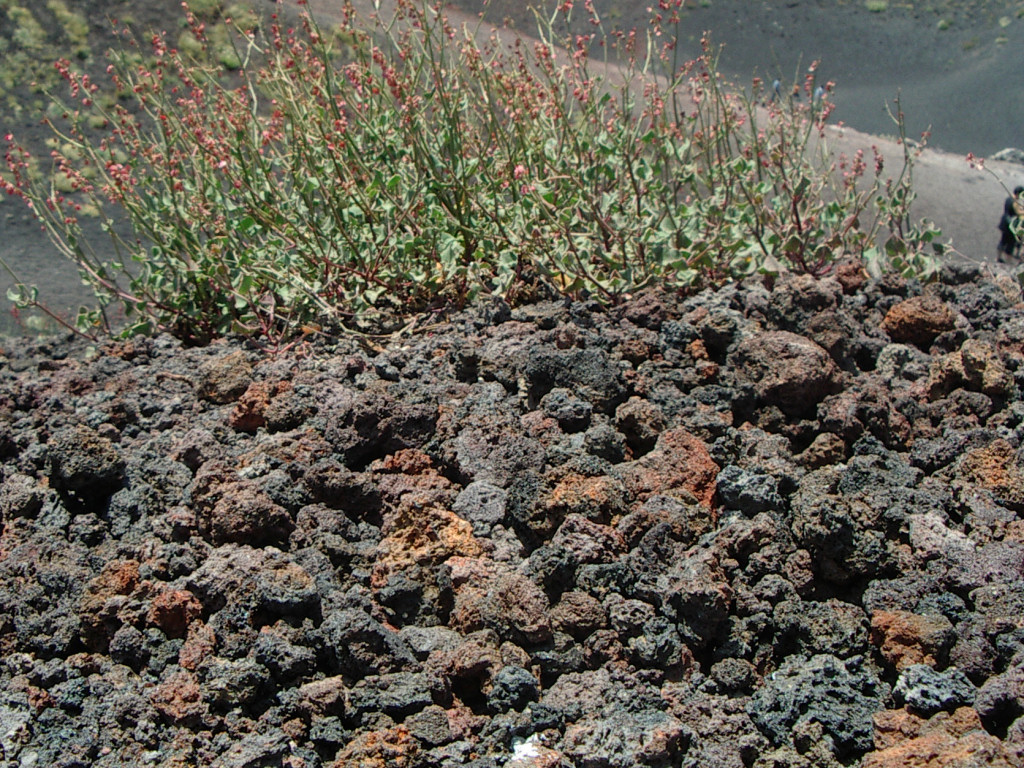 Etna's extrusive igneous rock lying on the slope.